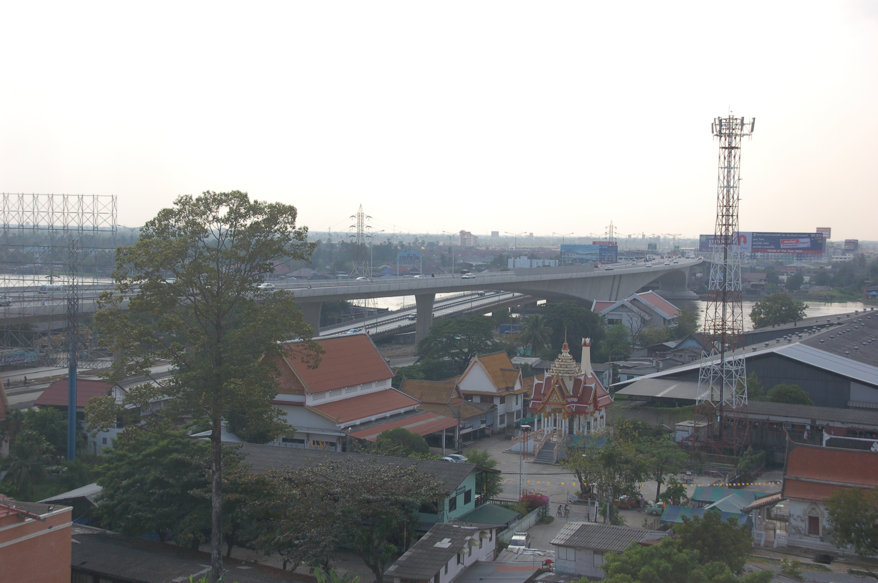 New Pranangklao Bridge